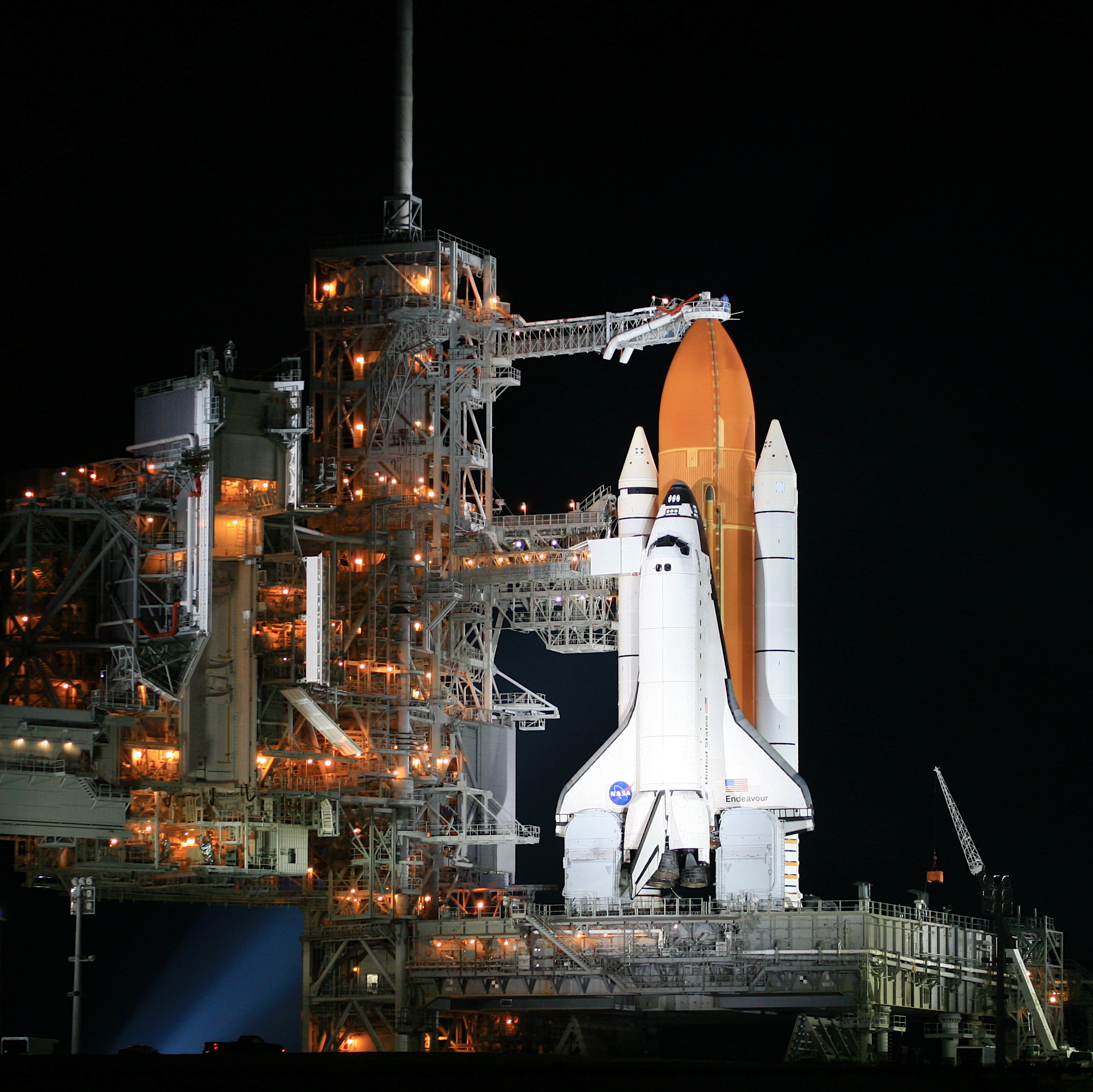 At Kennedy Space Center. Getting ready for Launch.... The astronauts had just bid farewell to their families.